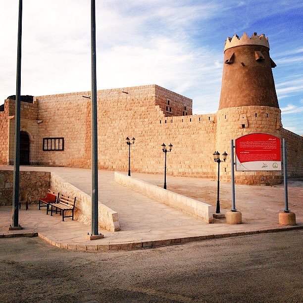 قصر الأمير نواف بكاف